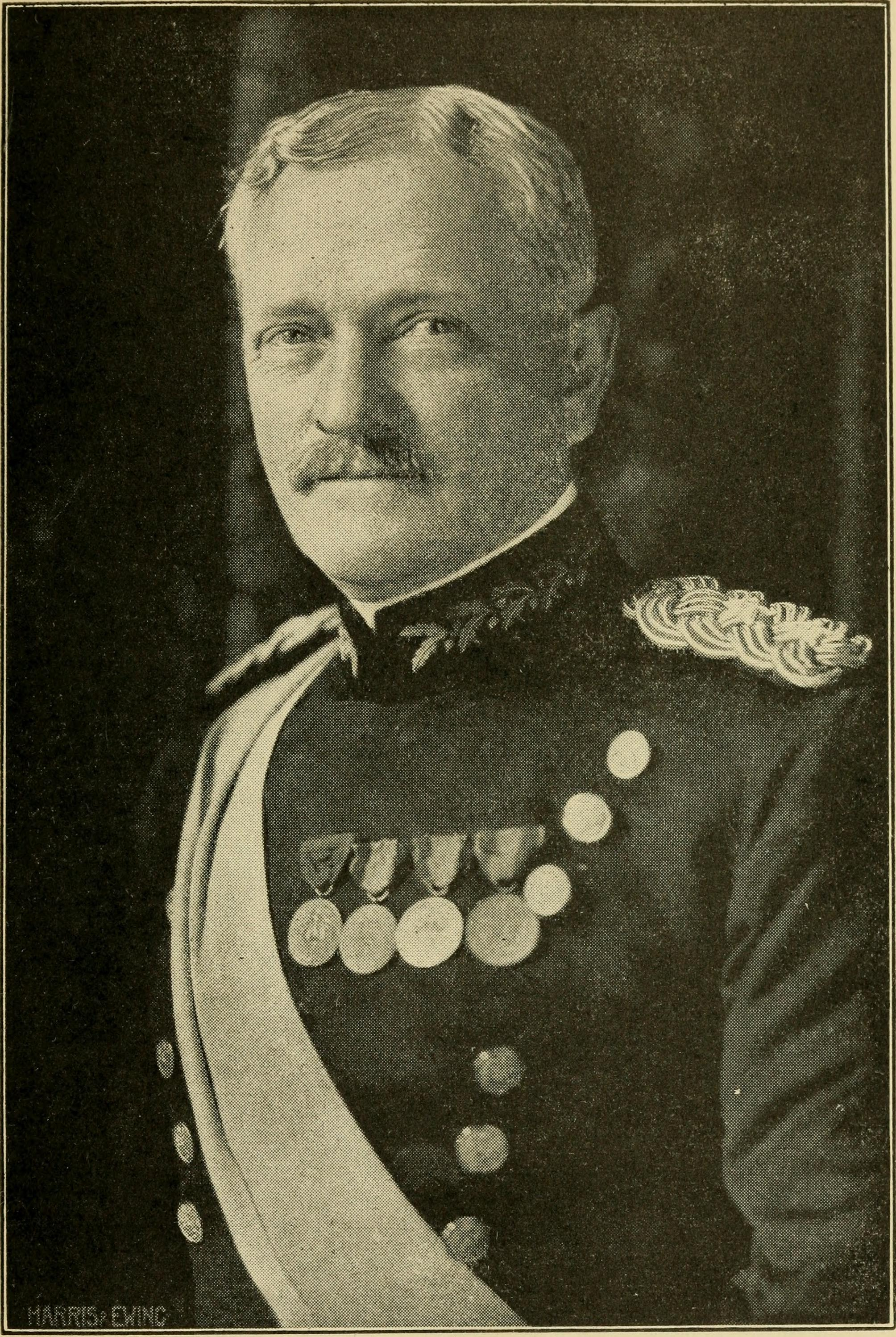 Title: A world in perplexity Year: 1918 (1910s) Authors: Daniells, Arthur Grosvenor, 1858- (from old catalog) Subjects: Bible World War, 1914-1918 Publisher: Washington, D.C., New York city (etc.) Review and herald publishing assn Text Appearing Before Image: © Press Illustrating Service, Inc.. N. Y. UNITED STATES TROOPS MARCHING THROUGH LONDON 12 Text Appearing After Image: © Harris & Ewing MAJOR GENERAL JOHN J. PERSHINGCommander of the American Forces in France 13